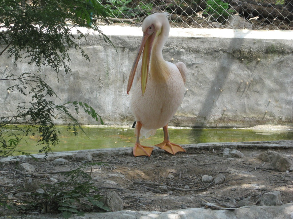 Spot-billed Pelican at Vandalur Zoological park, near Chennai, Tamil Nadu.Unknown